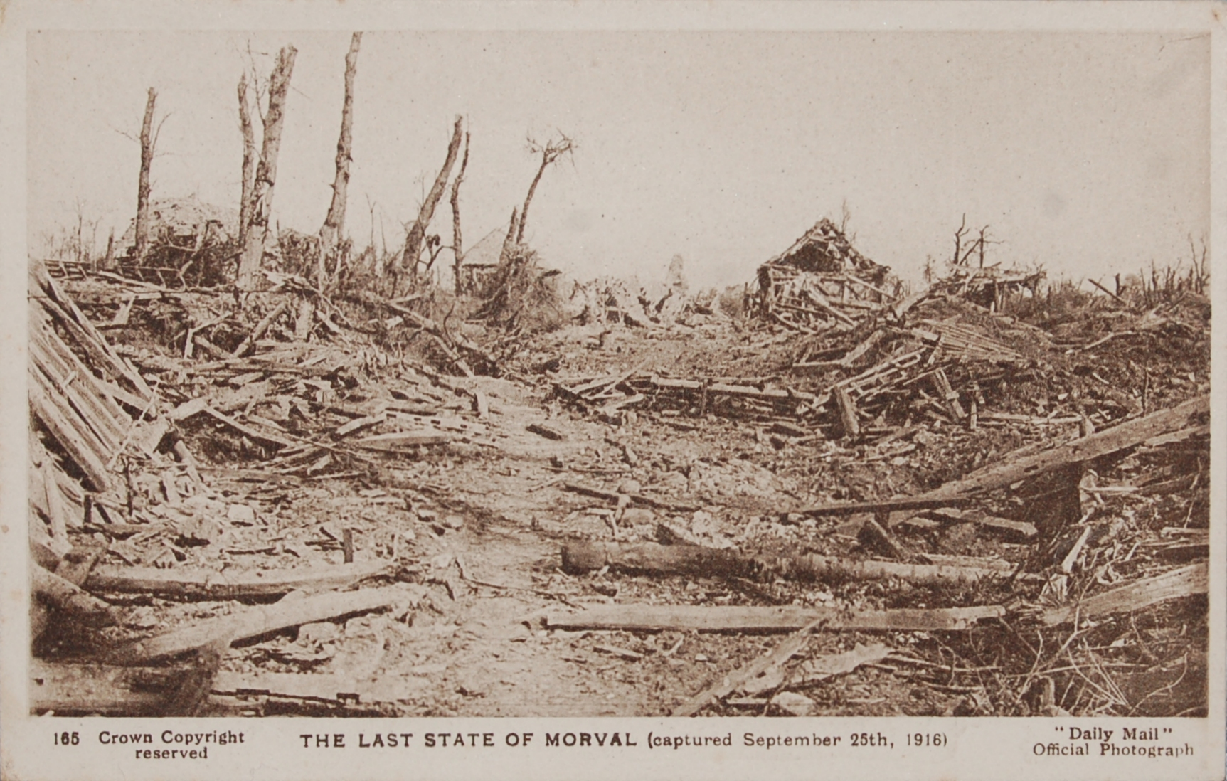 World War I Daily Mail Official War Photograph, Series 21, No. 165, titled "The last state of Morval". The obverse carries the following information: "Passed by Censor" and "The Germans had turned this village into a veritable fortress. Our victorious soldiers found it in this terrible condition."